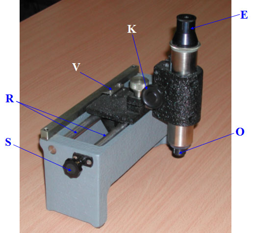 Traveling microscope. E-eyepiece, O-objective, K-knob for focusing, V-vernier, R—rails, S—screw for fine position adjustment. Photo taken in Hong Kong.